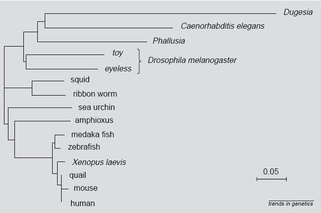 Árbol filogenético de los genes Pax de varios metazoa